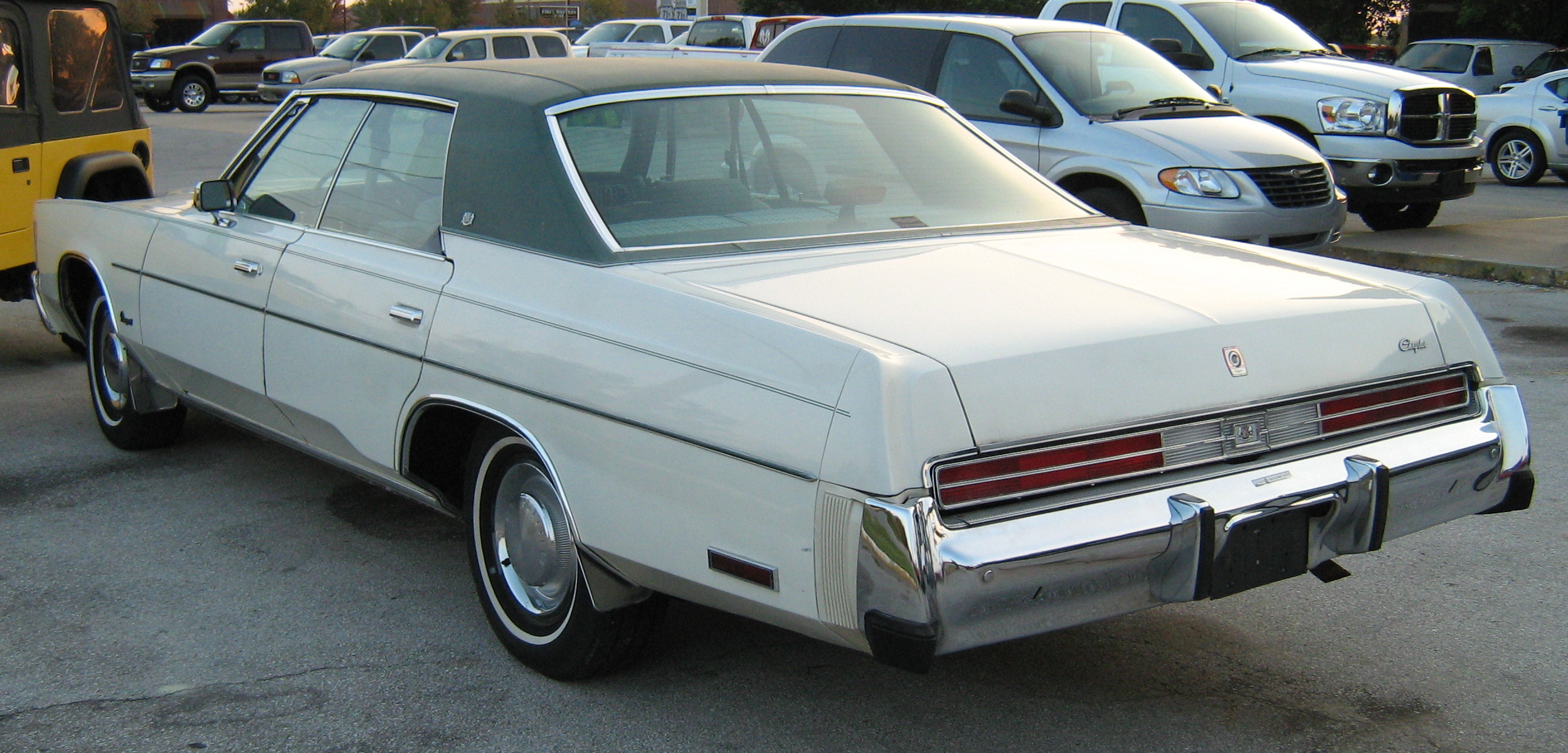 1978 Chrysler Newport 4-door hardtop - rear view